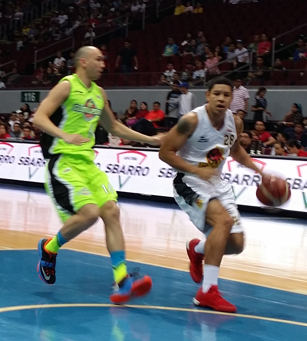 PBA - Globalport vs Barako Bull - William Wilson-Barako Bull - 2015-1225